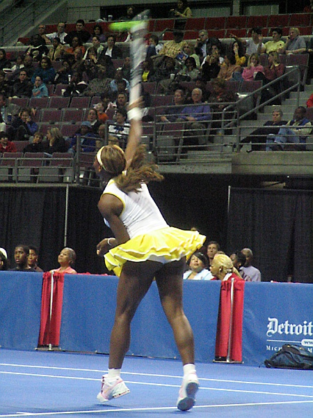 Serena Williams delivering a serve.